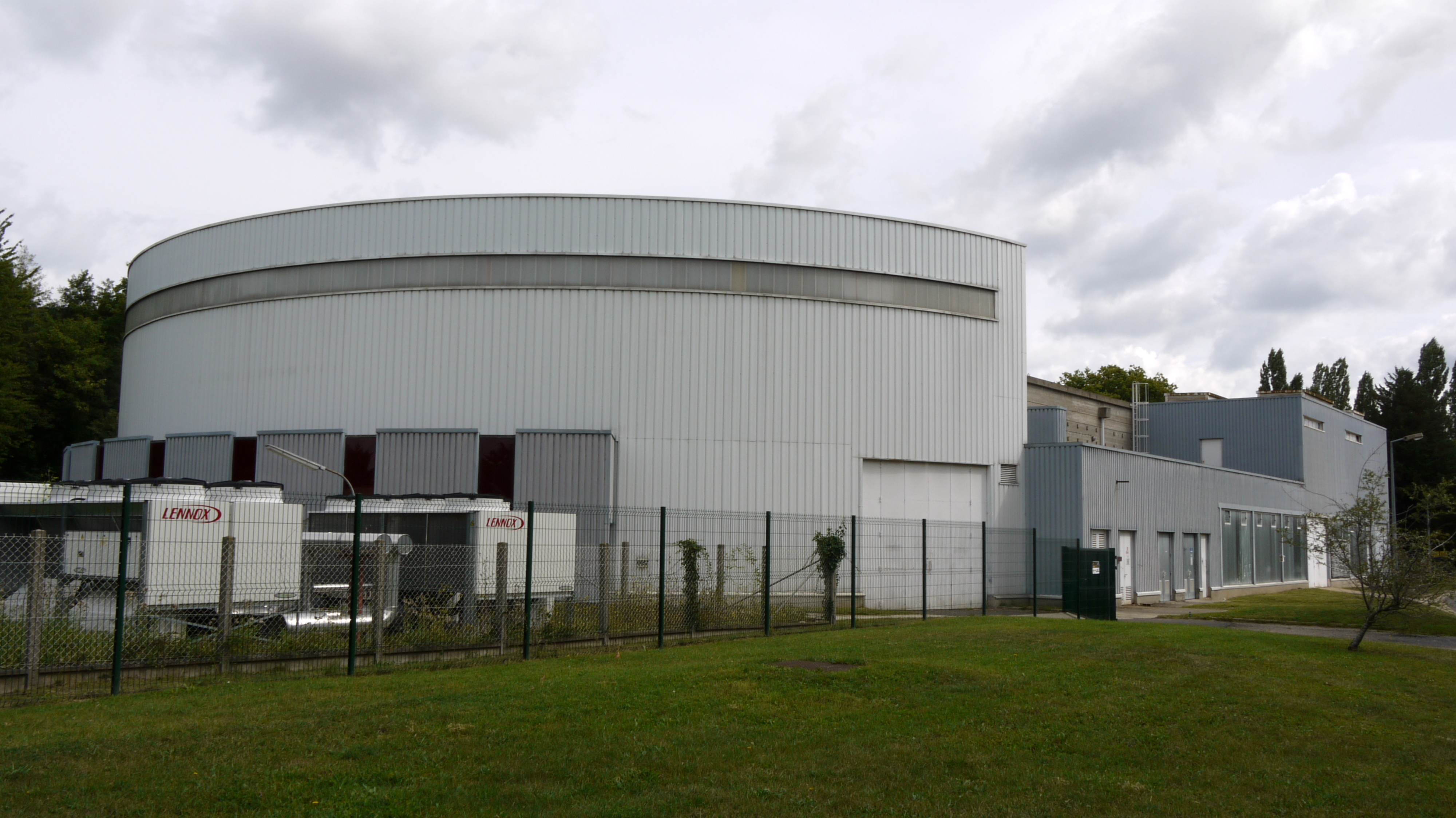 Linear and tandem Particle accelerator Alto, Université Paris XI, Orsay, France